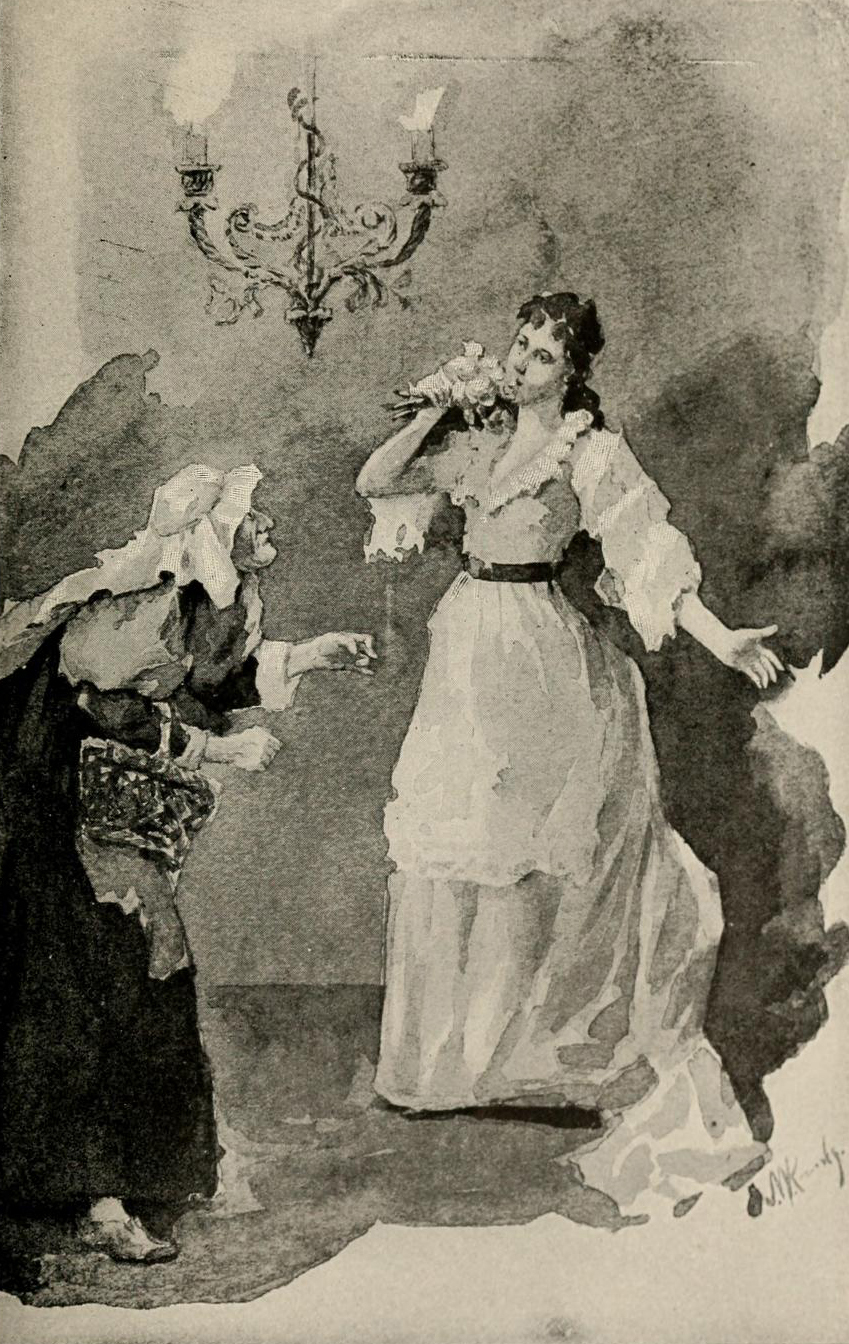 Title: "'She pressed the glowing flowers to her lips.'". Description: Caroline de St.Castin (right) pressed to her lips the poisoned flowers offered by La Corriveau (left), illustration for an edition of The Golden Dog. First publication : William Kirby, The Golden Dog (Le Chien d'or) : A Romance of the Days of Louis Quinze in Quebec, Boston, Joseph Knight Company, 1896, illustration located between pages 488 and 489. Photogravure from painting of J.W. Kennedy.